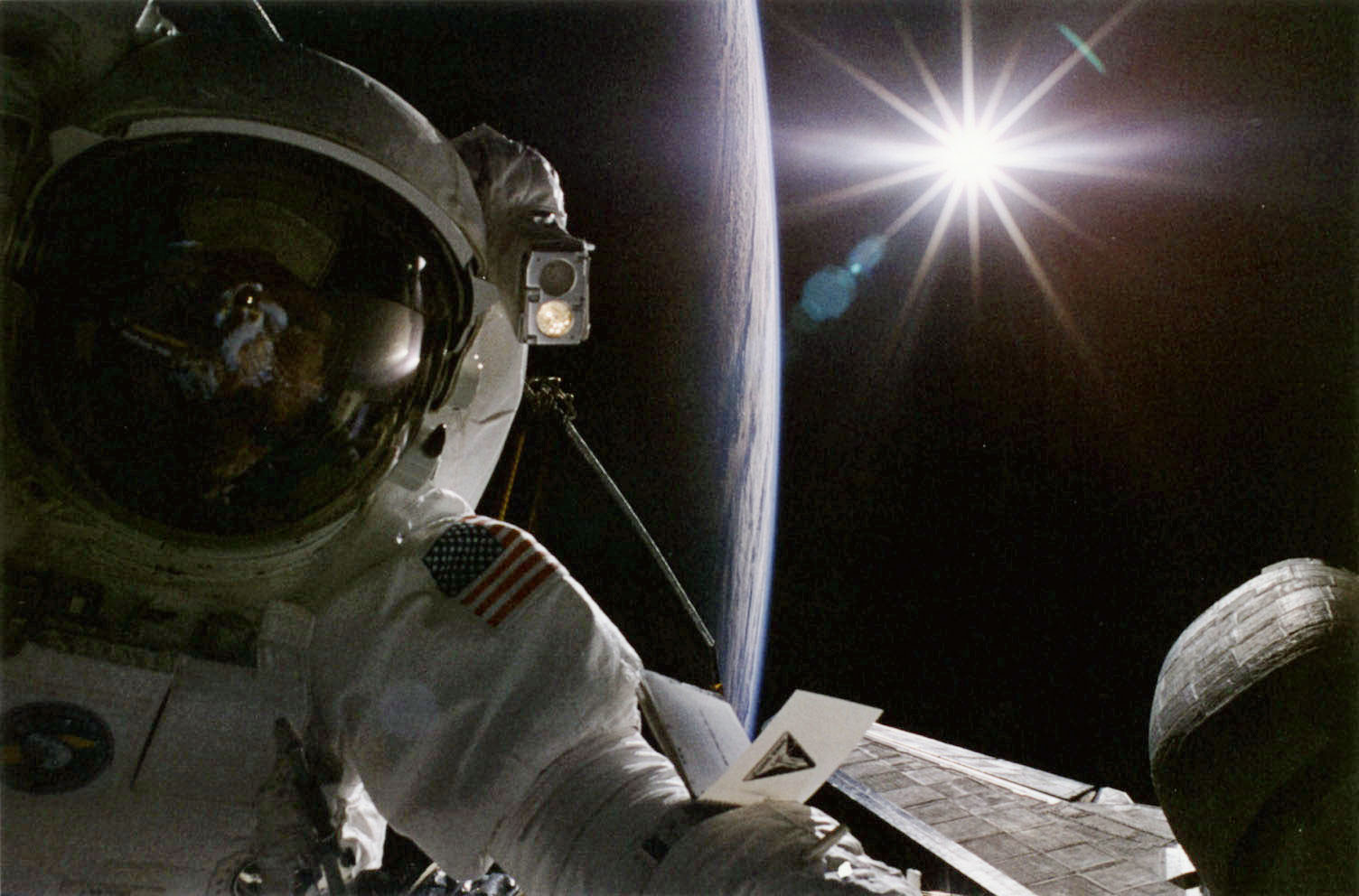 Joseph Tanner, of STS-82, in a spacewalk to do maintenance on the Hubble Space Telescope. This photo taken by his collegue, Gregory Harbaugh, in 1997.